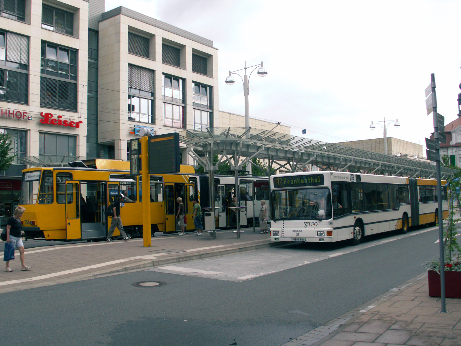 MAN NG312 city bus in Gera, Germany. Built 1997.